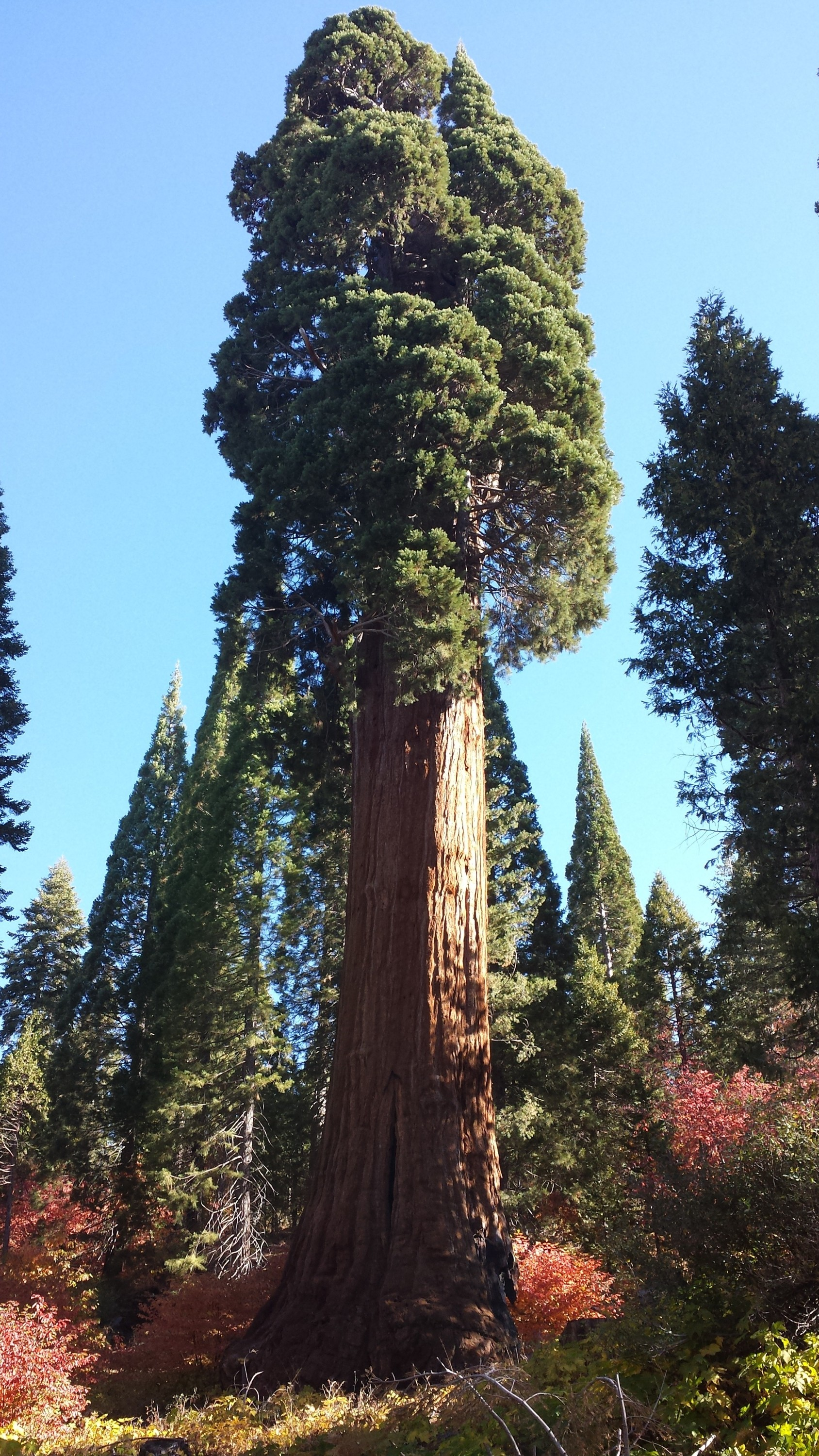 The Methuselah tree is one of the largest Sequoias in the Mountain Home Grove